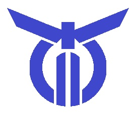 Nahari Kochi chapter